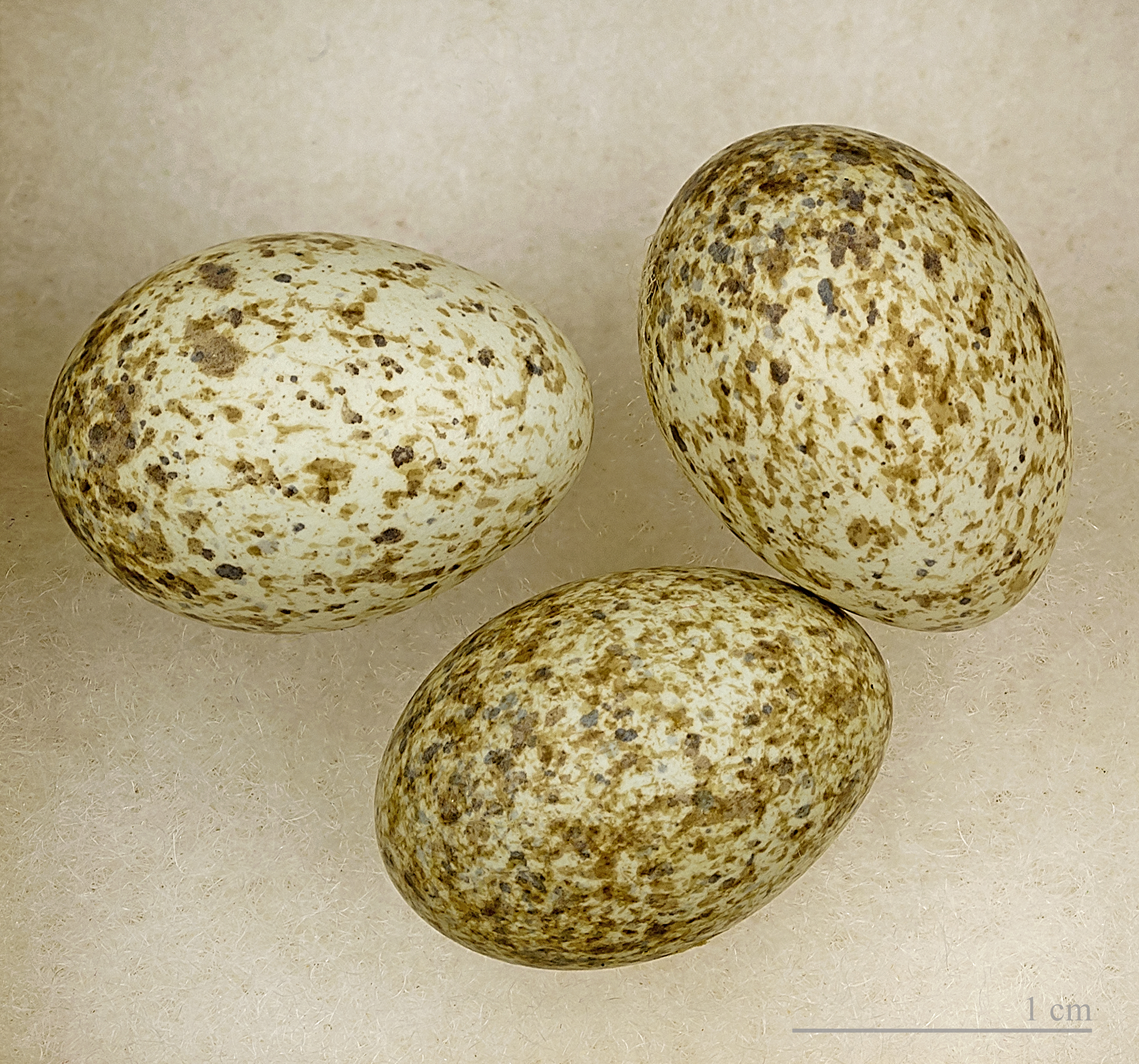 Egg of Dartford Warbler. Collection of Jacques Perrin de Brichambaut.